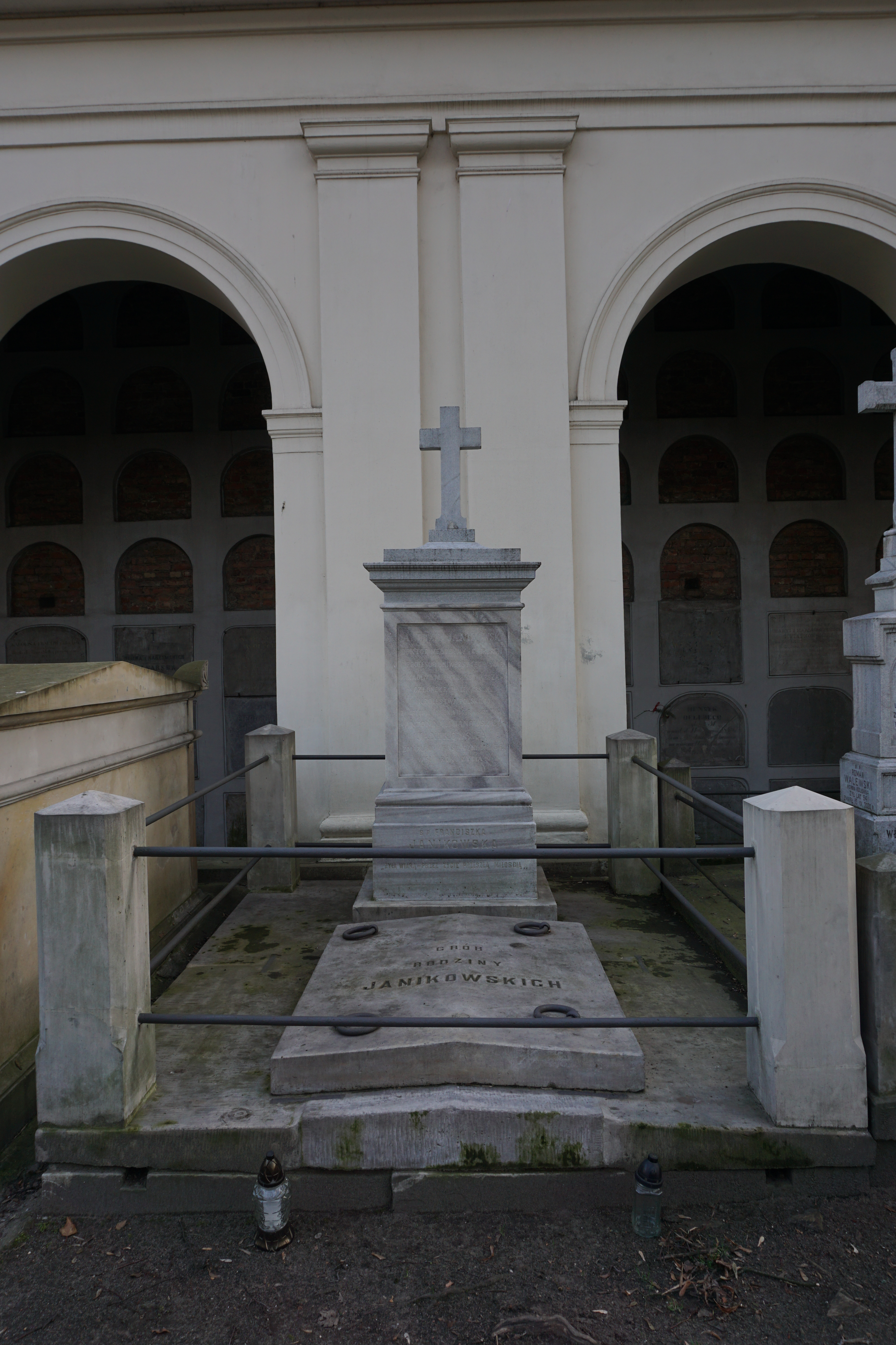 The grave of Andrzej Janikowski at the Powązki Cemetery (section Under the catacombs, grave 133, 134)